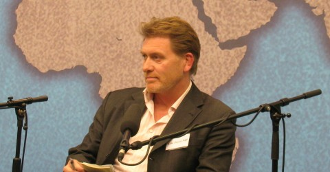 Eric Joyce, Labour MP of UK Parliament for Falkirk, ex-military and interested in Defence, Great Lakes Region of Africa and Social Media.